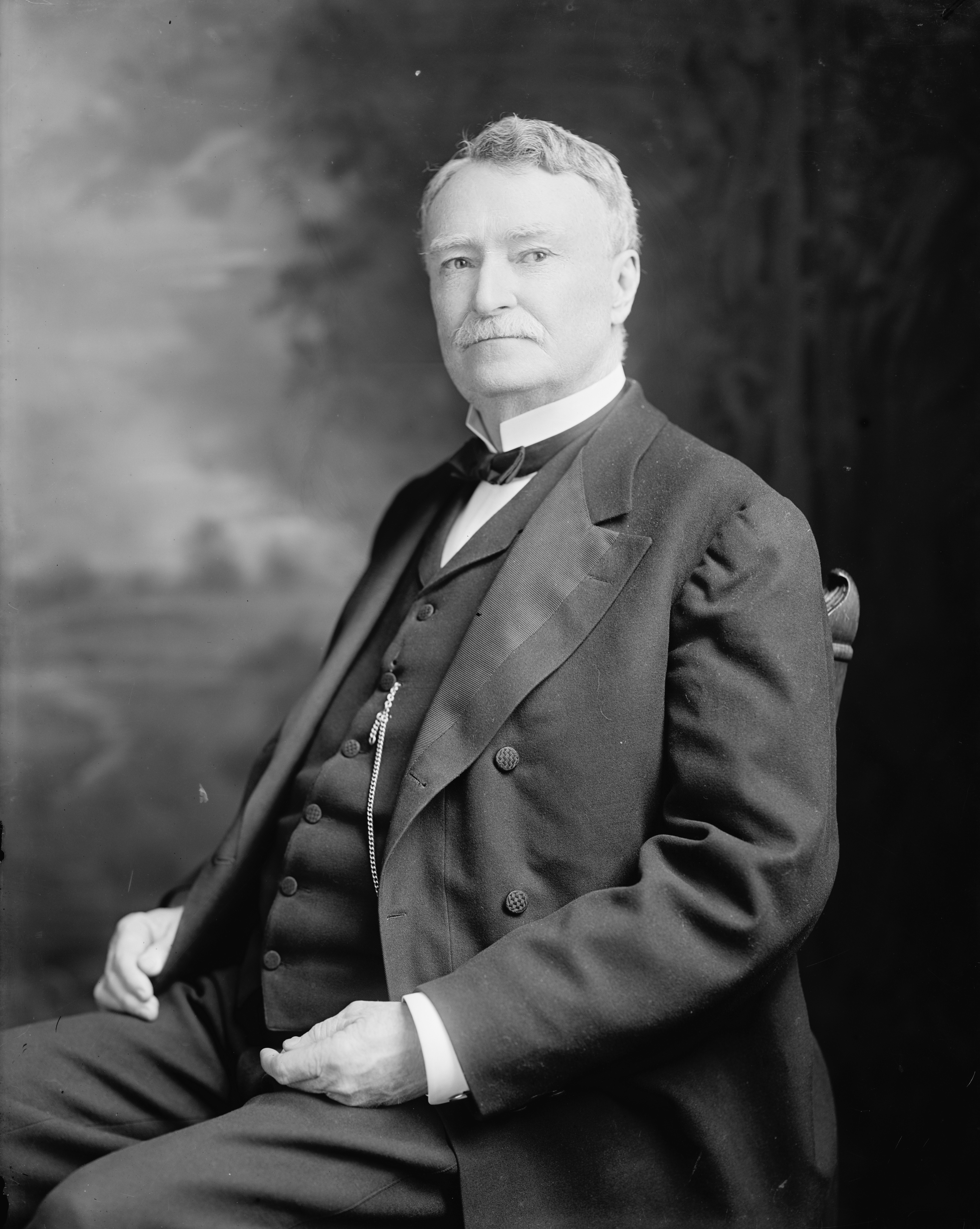 Image of Anselm J. McLaurin taken from United States Congress Biographical Directory. (